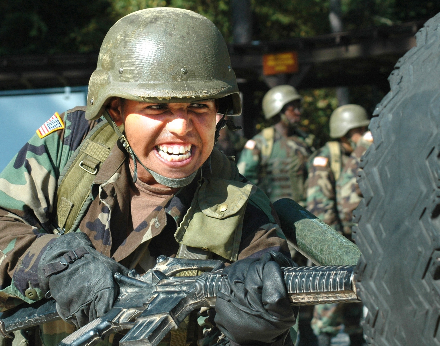 United States Army Pvt. Jose Hernandez rams a fixed bayonet into a tire during bayonet training at Fort Jackson, South Carolina. Being a soldier is a hazardous job, and recruits must demonstrate extreme (but disciplined and intelligent), aggression and fearlessness.